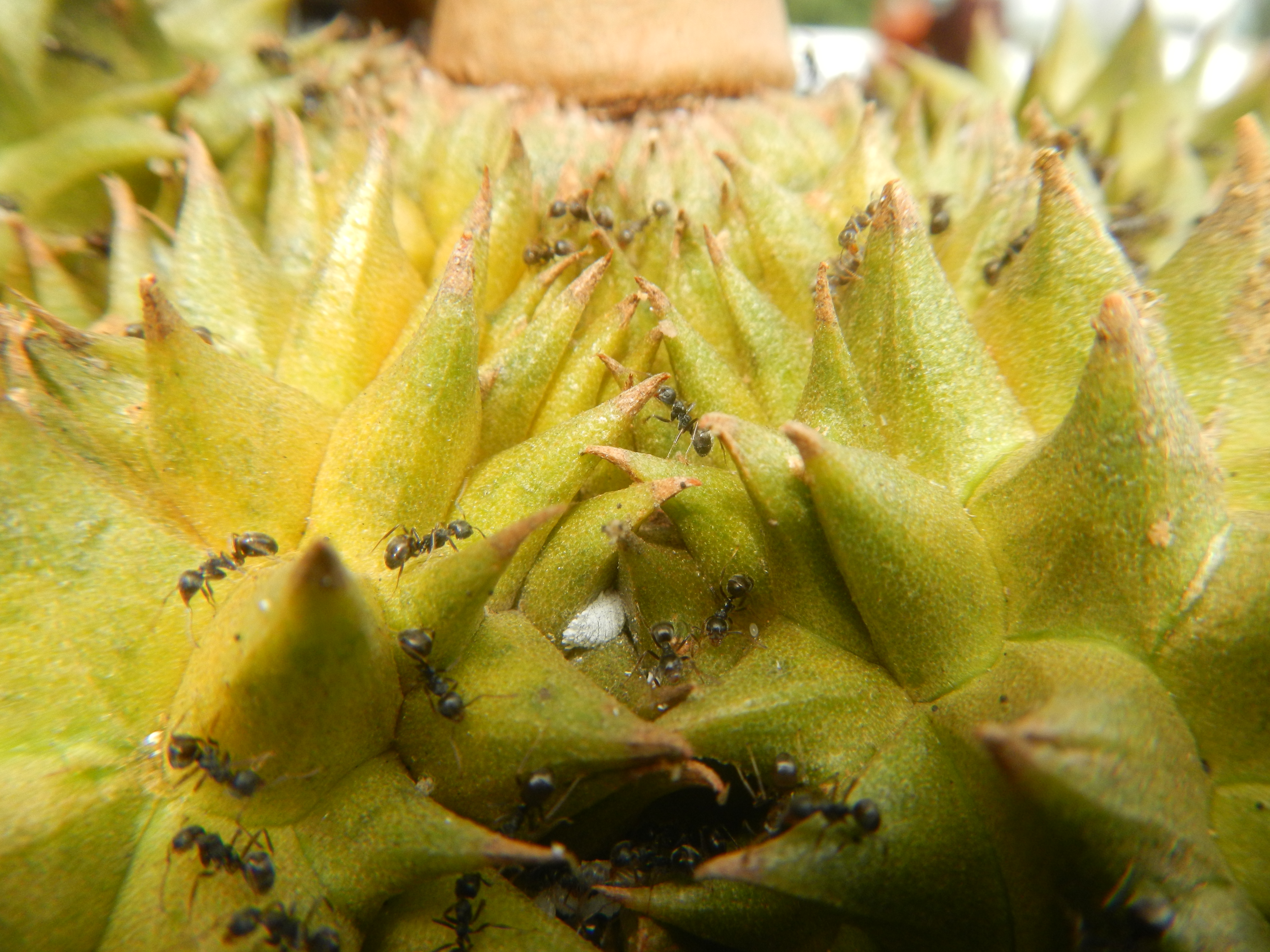 Black ants eating Durians in the Philippines Black ants Lasius niger in Market of Barangay Cutcot, Pulilan, Bulacan 14°54'19"N 120°51'52"E, Pulilan, Bulacan Bulacan (Note: Judge Florentino Floro, the owner, to repeat, Donor Florentino Floro of all these photos hereby donate gratuitously, freely and unconditionally all these photos to and for Wikimedia Commons, exclusively, for public use of the public domain, and again without any condition whatsoever).